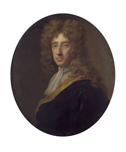 John Hampden (1653–1696)